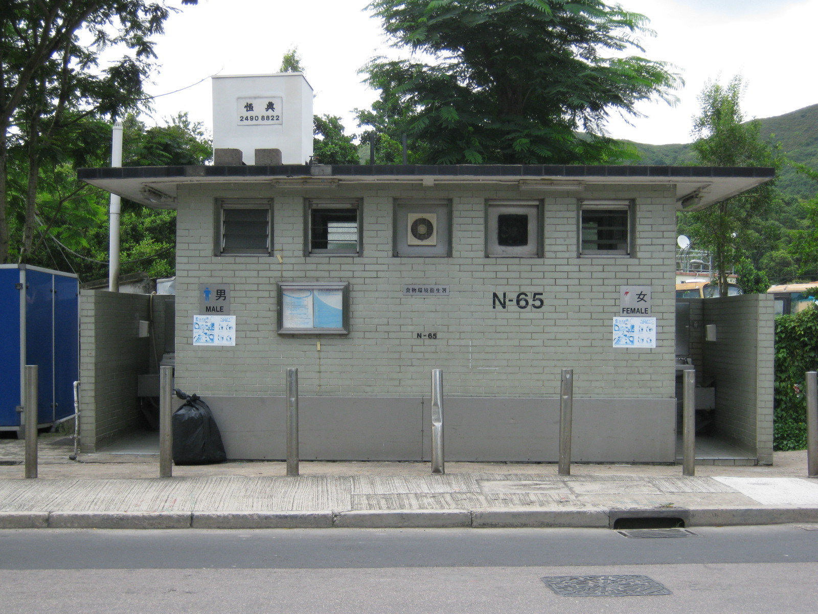 Ma Mei Ha Public Toilet near Sha Tau Kok Road. Converted from an aqua privy to vacuum toilet.